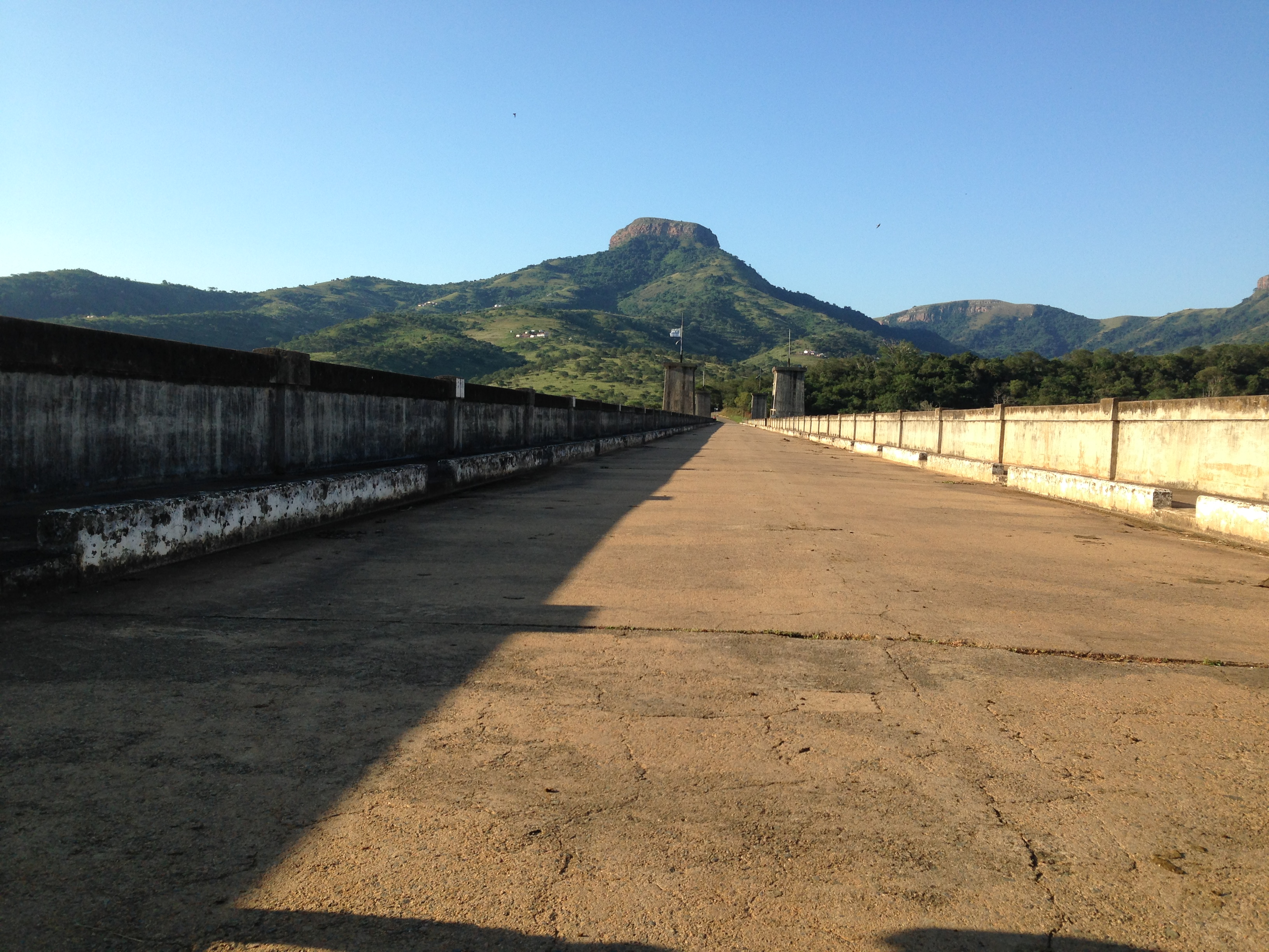 The two lane road over Nagle Dam wall. Taken facing the entrance to the reserve.